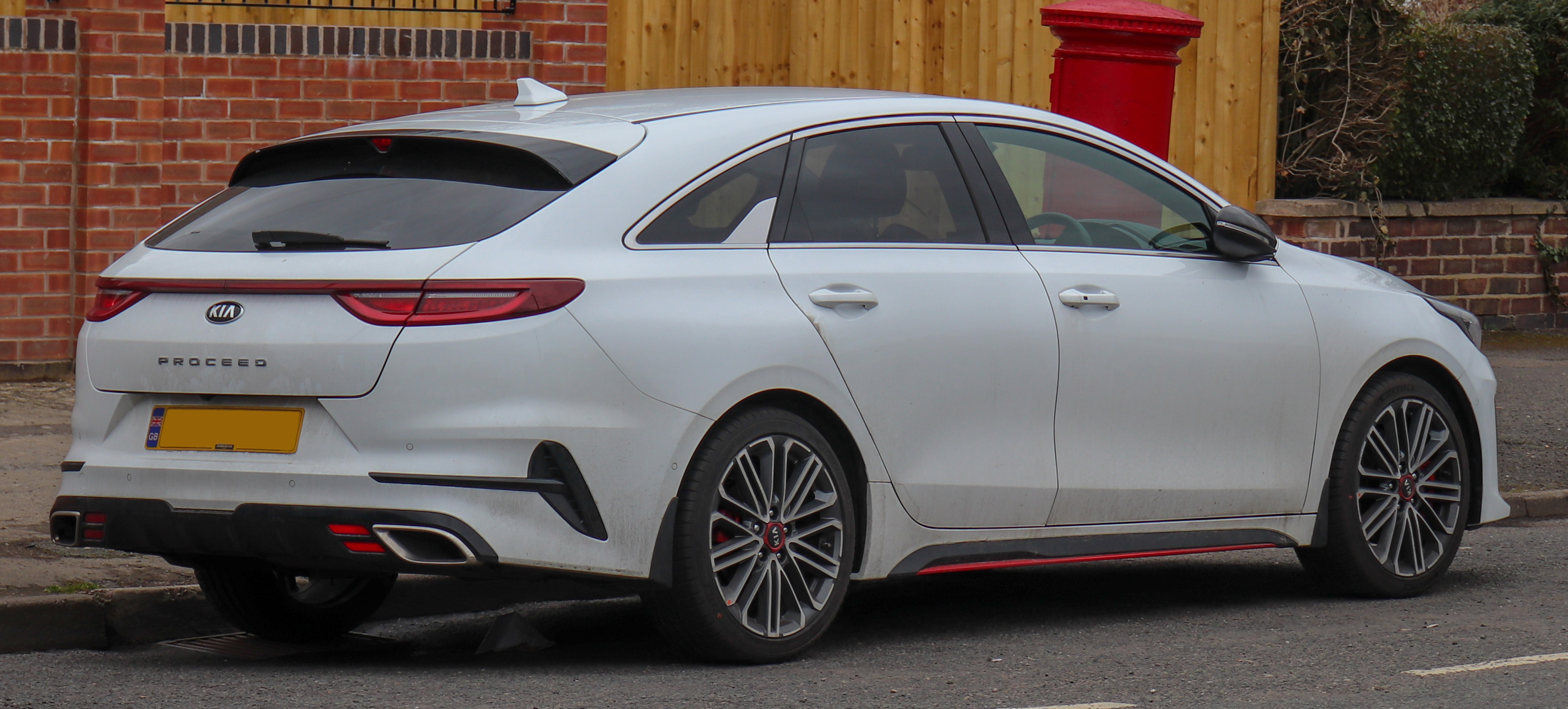 2019 Kia Proceed GT ISG S-A 1.6 Rear Taken in Warwick